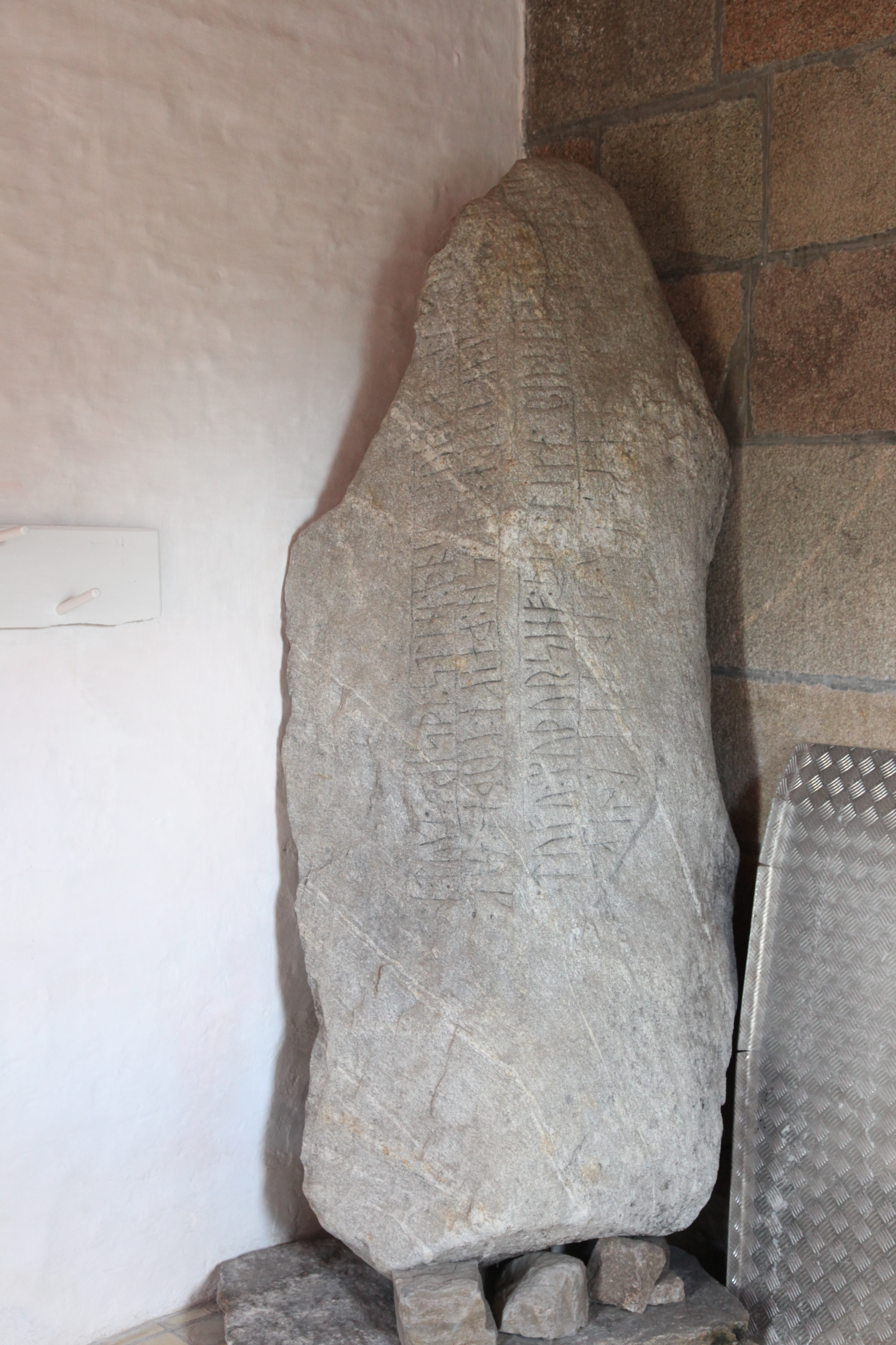 Runestone in Gunderup Kirke just south of Aalborg, Denmark